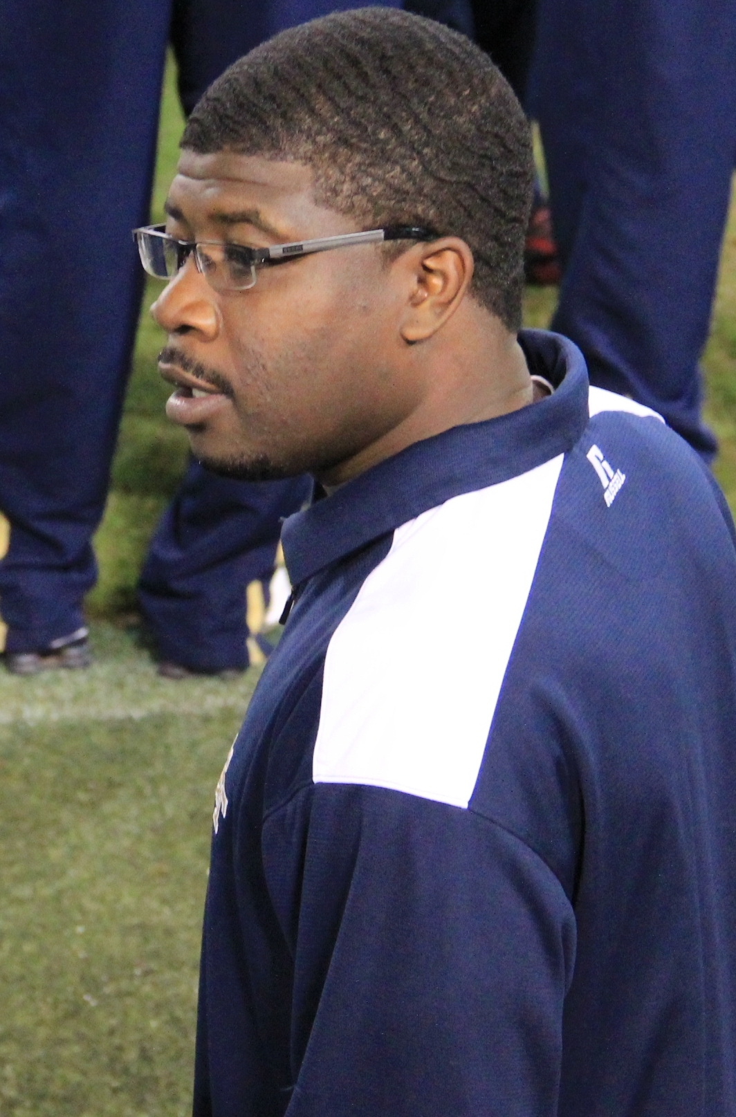 Former quarterback Joe Hamilton, 2013.